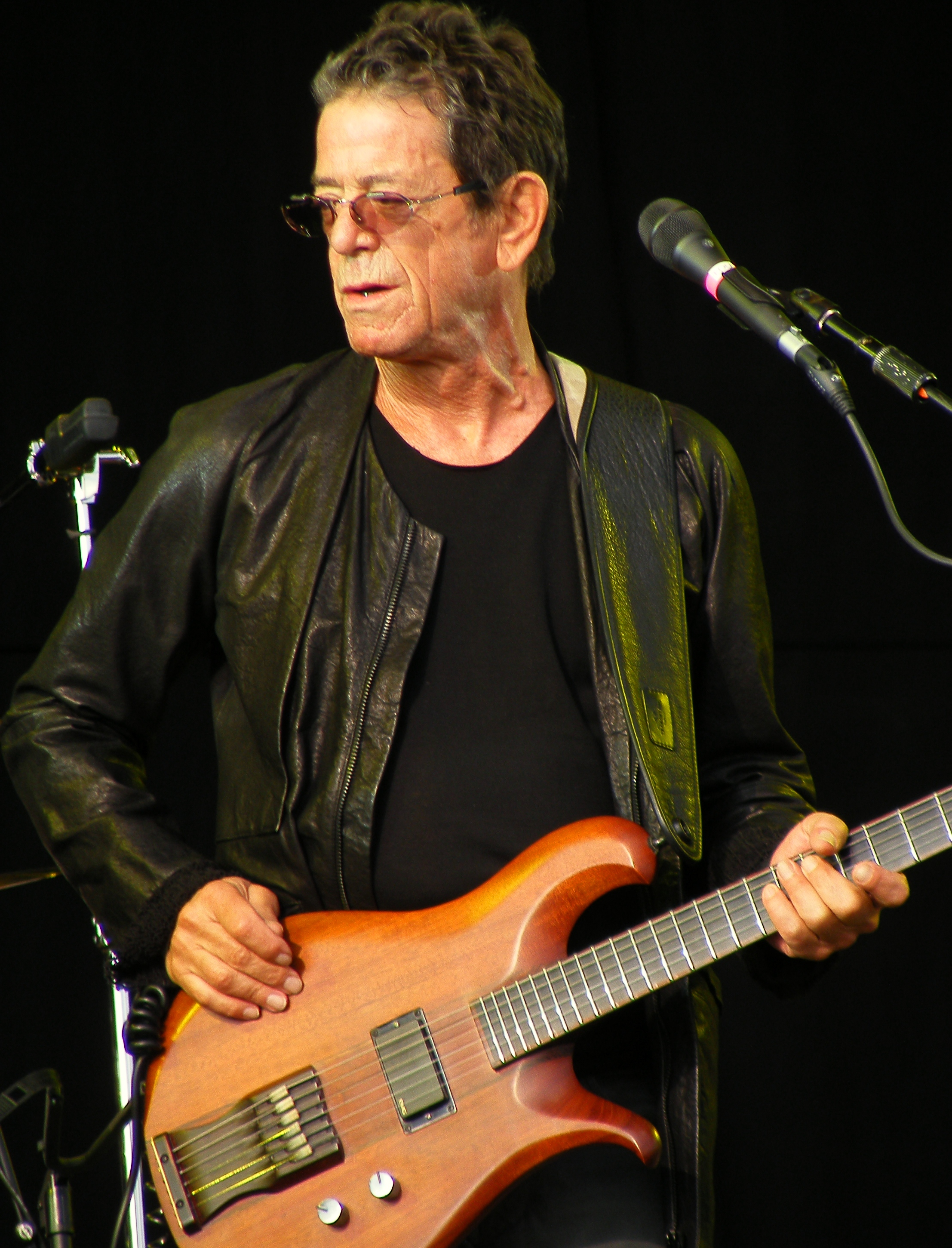 Lou Reed performing at the Hop Farm Music Festival on Saturday the 2nd of July 2011